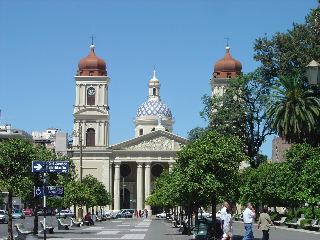 Cathedral in San Miguel de Tucuman, Argentina.